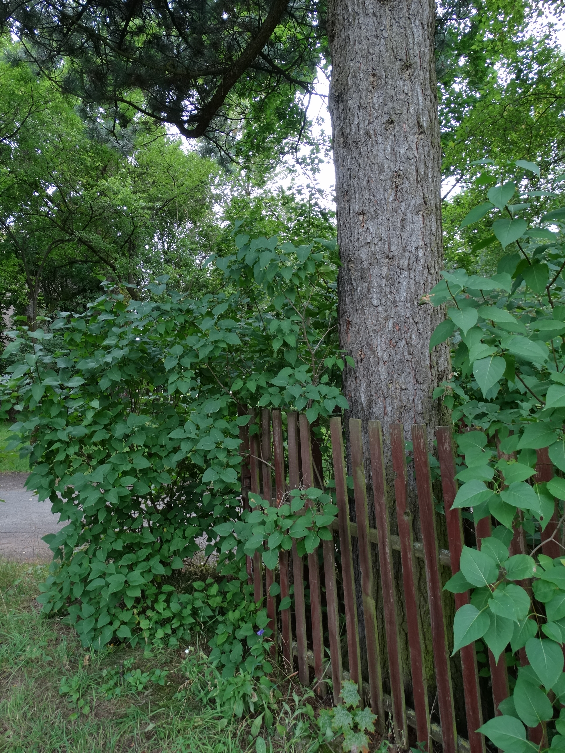 Pinus cembra of Antakalnis Park, Vilnius, Lithuania